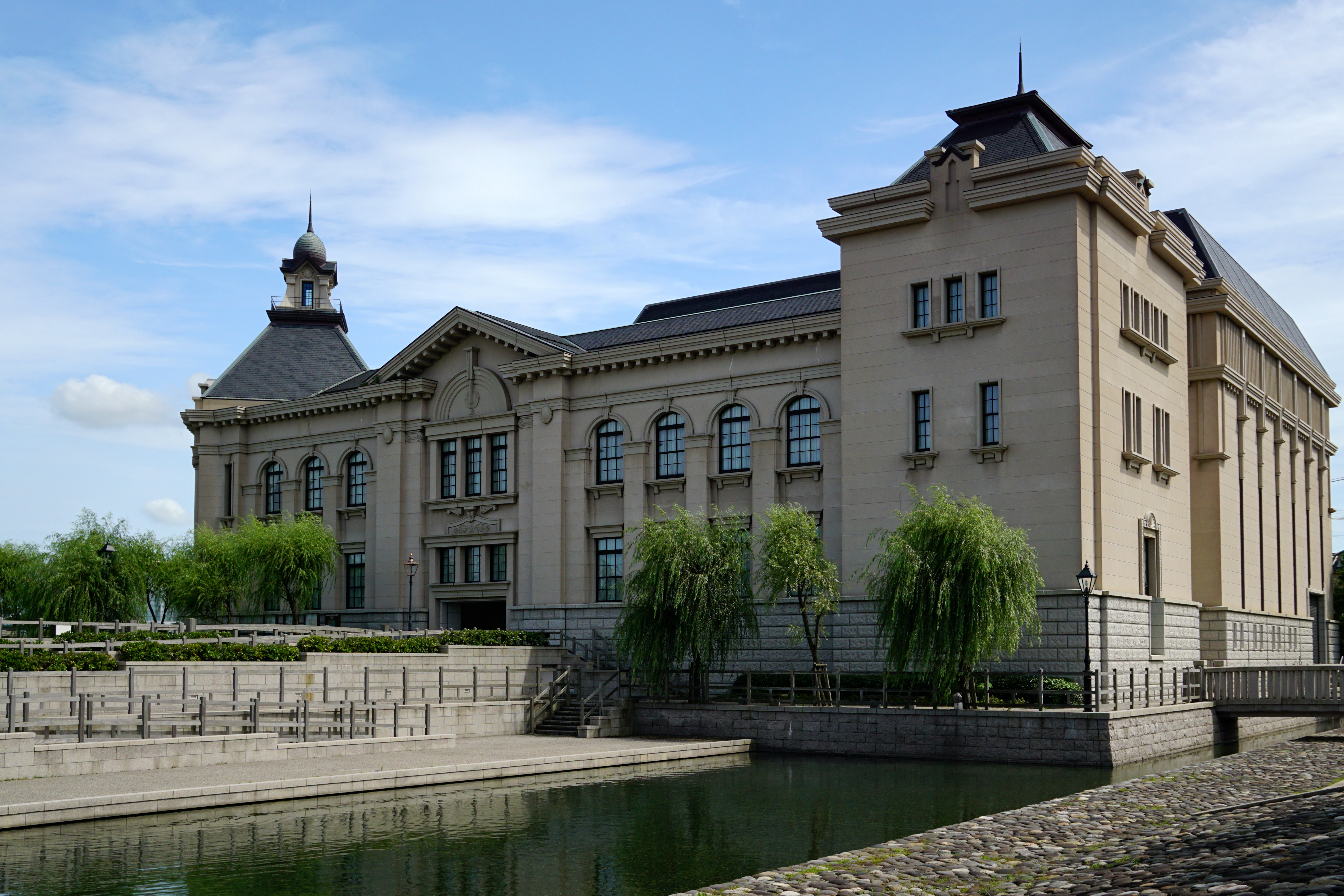 Niigata City History Museum Main Building, Niigata, Niigata prefecture, Japan.